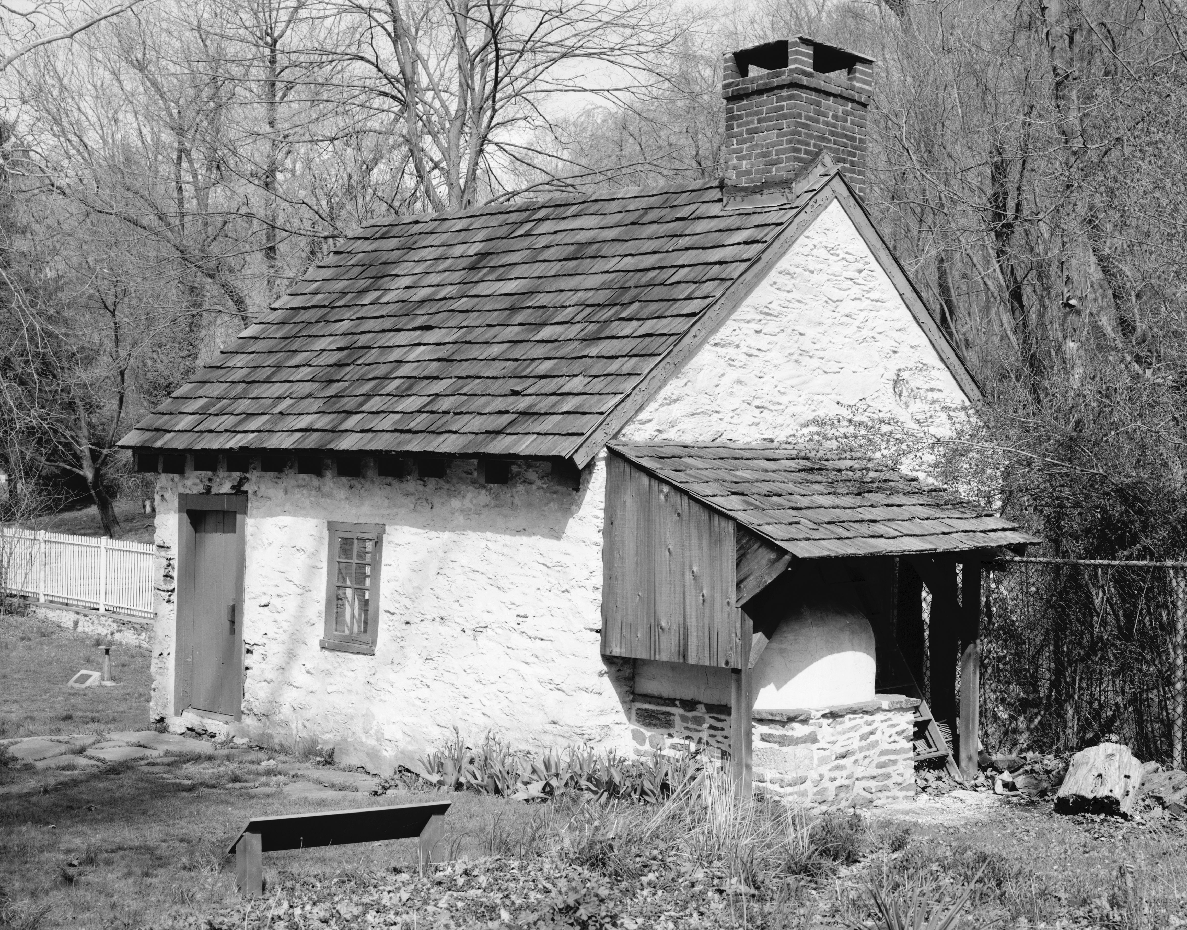 Claus Rittenhouse Home, Outbuilding, 207A Lincoln Drive, Fairmount Park, Philadelphia (Philadelphia County, Pennsylvania) (cropped)